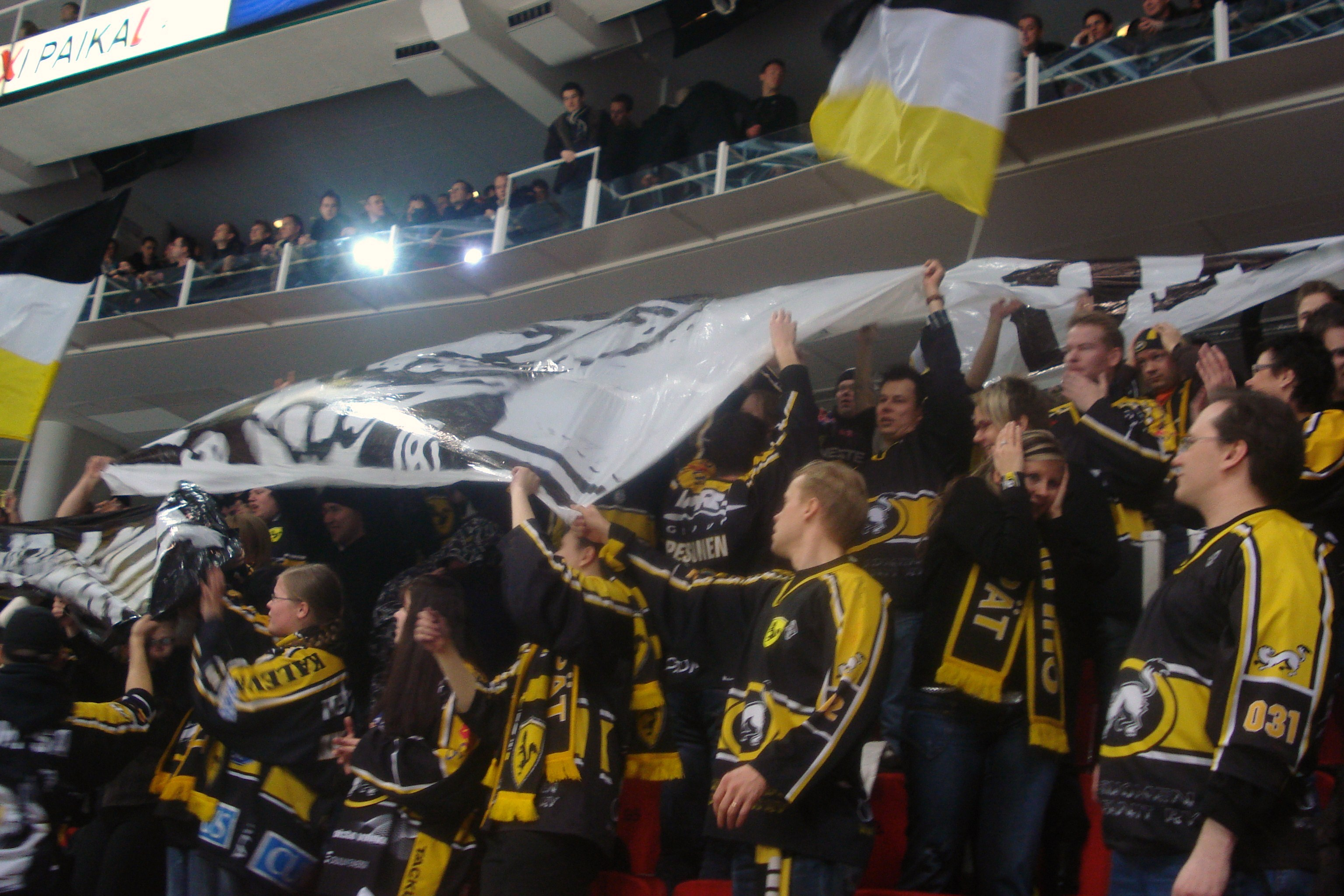 Finnish ice hockey team Oulun Kärpät fan club, EtäKärpät in Turku away game versus Turun Palloseura